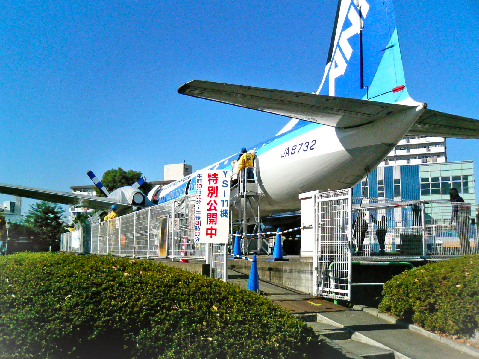 YS-11, a retired Japanese airplane, on the special interior open day. It is exhibited outdoors adjacent to the Kōkū-kōen Station east exit rotary, and the schedule will be on the museum web site.